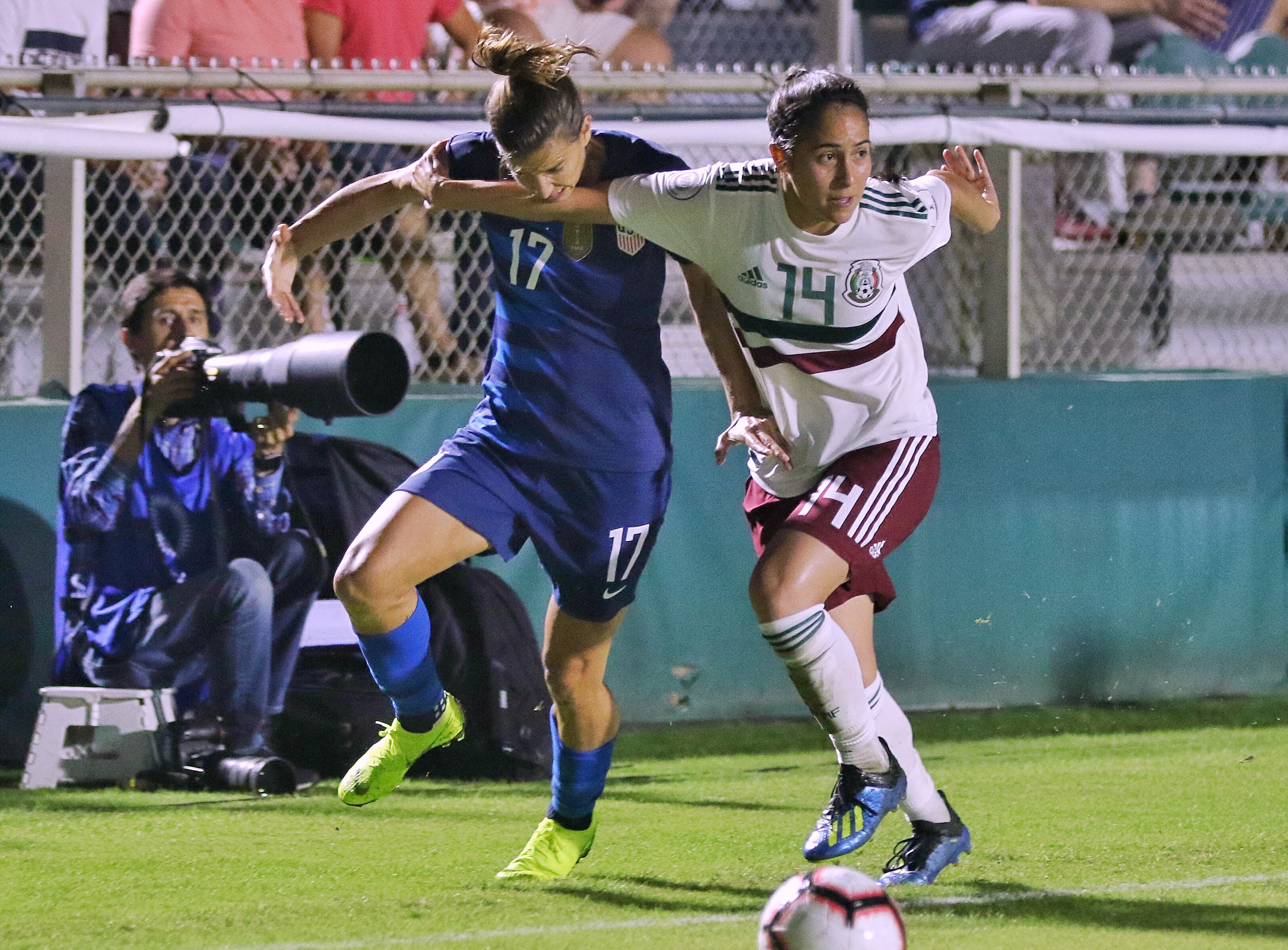 Tobin Heath & Arianna Romero fighting for the ball in a match between US and Mexico at the 2018 CONCACAF Women's Championship on October 4, 2018.